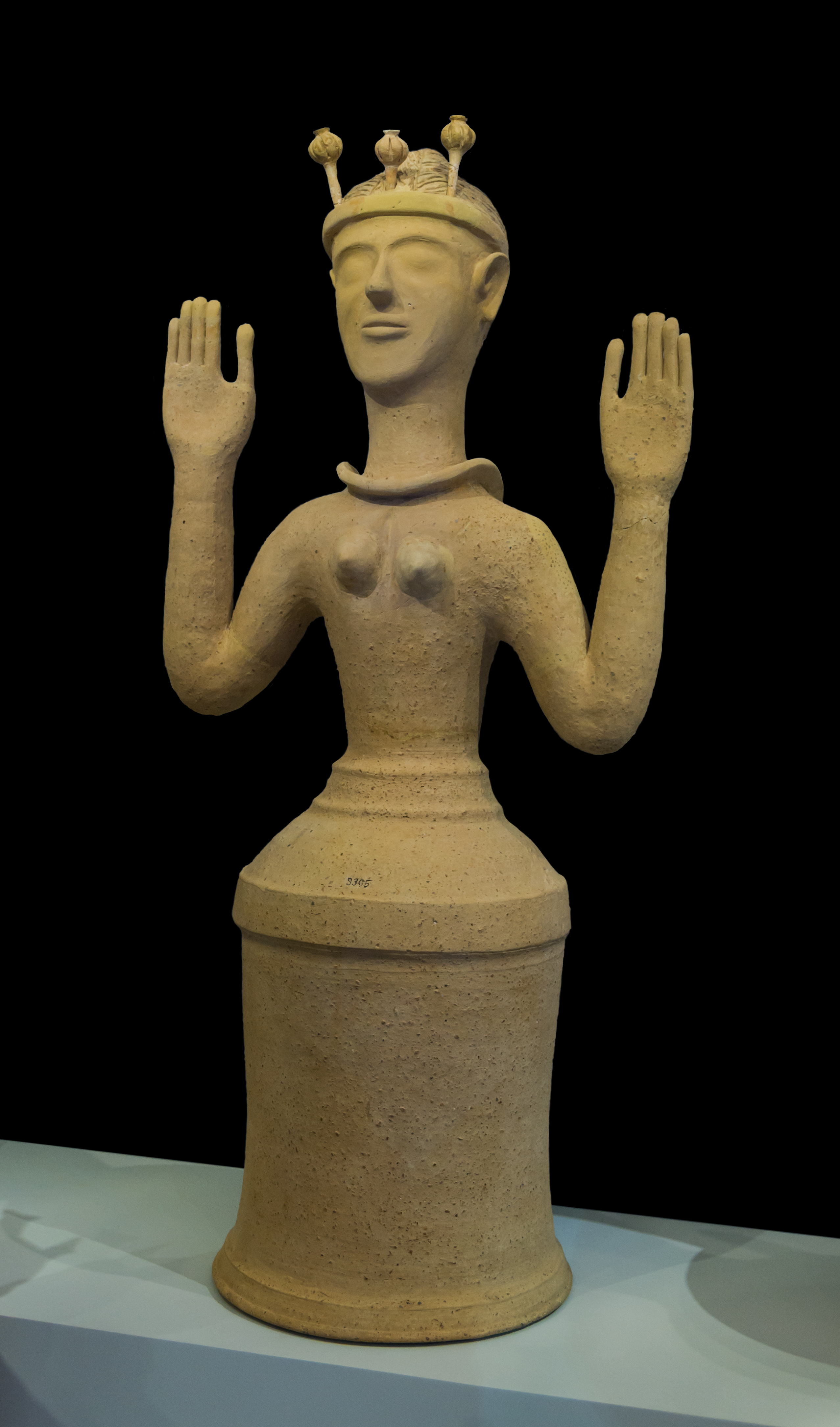 Minoan praying woman, statuette.